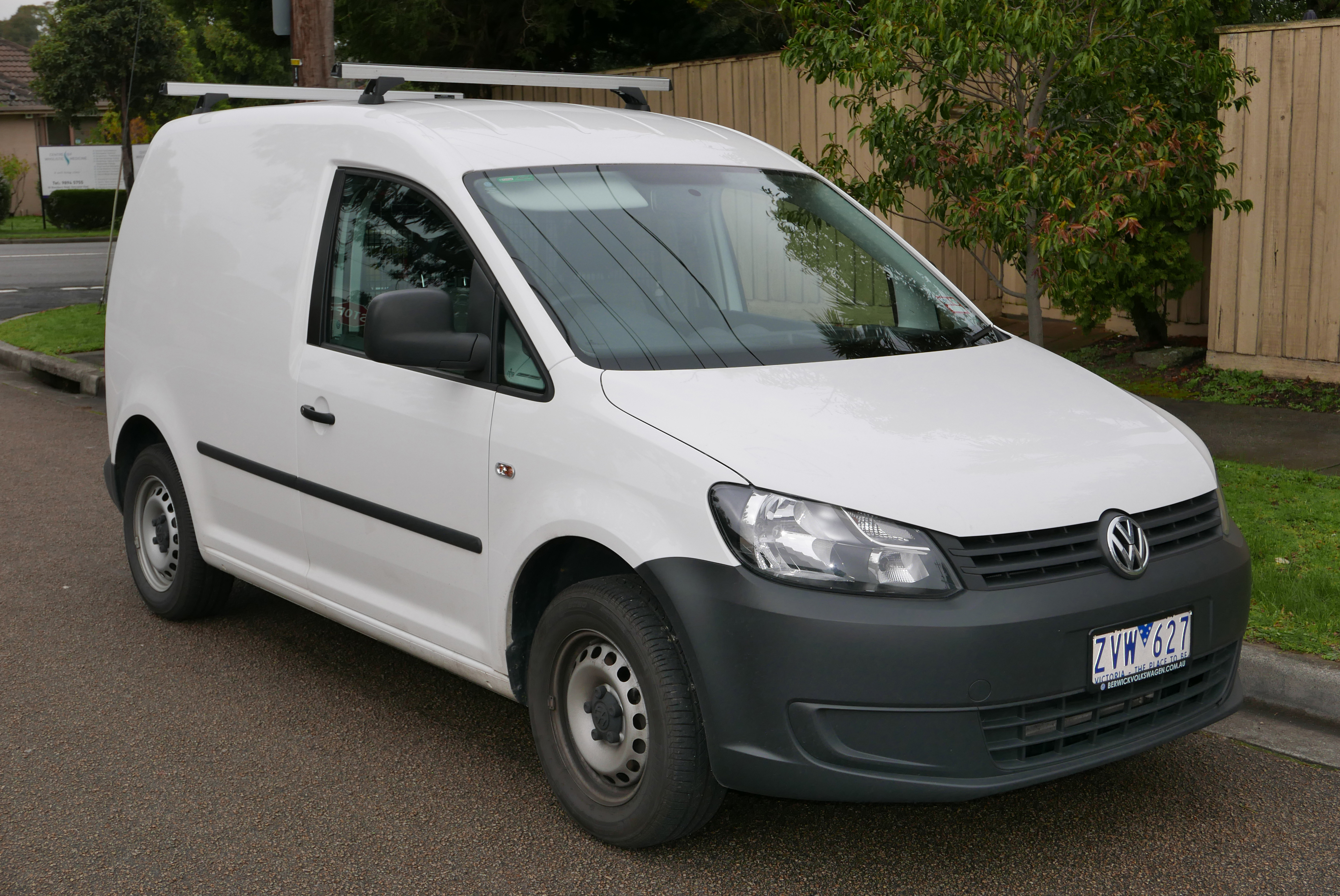 2013 Volkswagen Caddy (2K MY13) TDI250 van. Photographed in Doncaster East, Victoria, Australia. Vehicle registration enquiry resultsJurisdictionVictoriaRegistrationZVW627Chassis codeWV1ZZZ2KZDX093229Engine codeCAYV24622Compliance date2013-08Year of manufacture2013